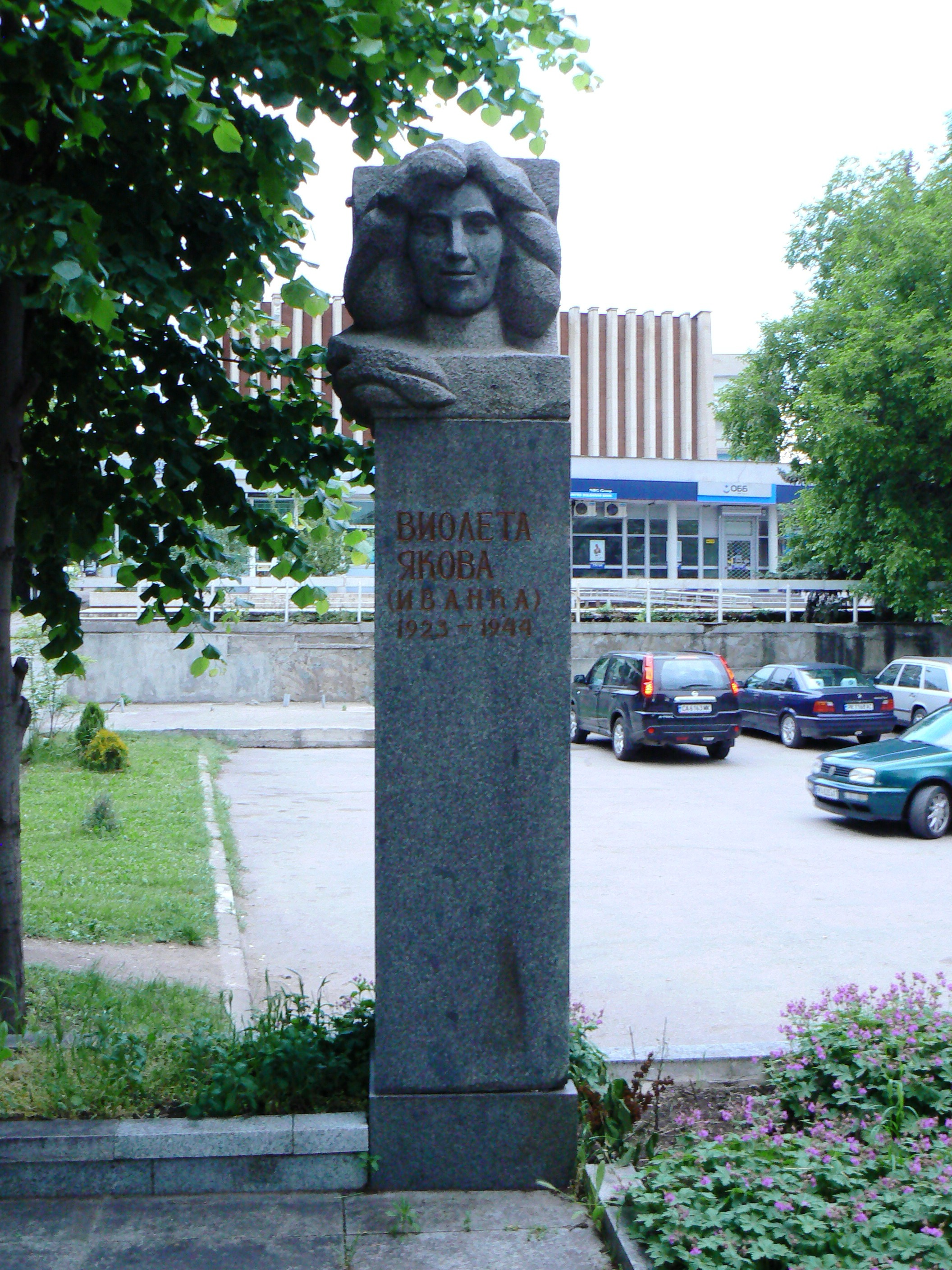 The monument of female partisan Violeta Yakova - Ivanka, in Radomir, Bulgaria